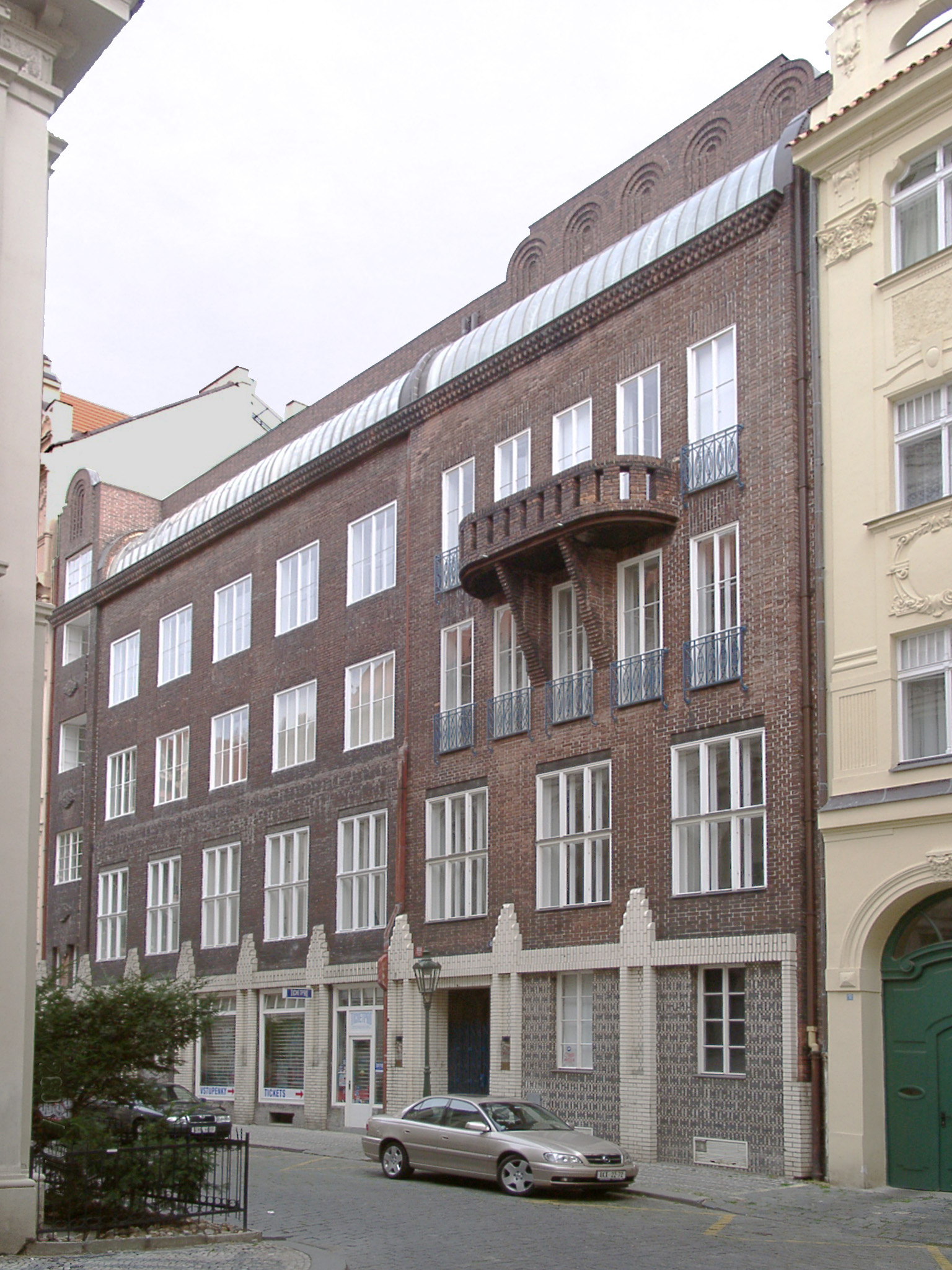 the Stenc House, Prague, designed by Otakar Novotný 1909 - 1911